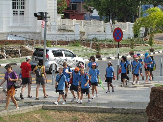 back to school